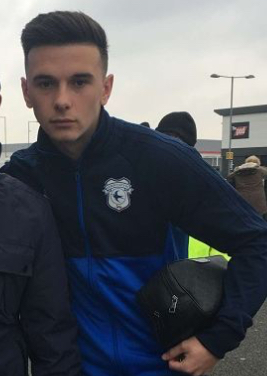 Mark Harris outside the CCS